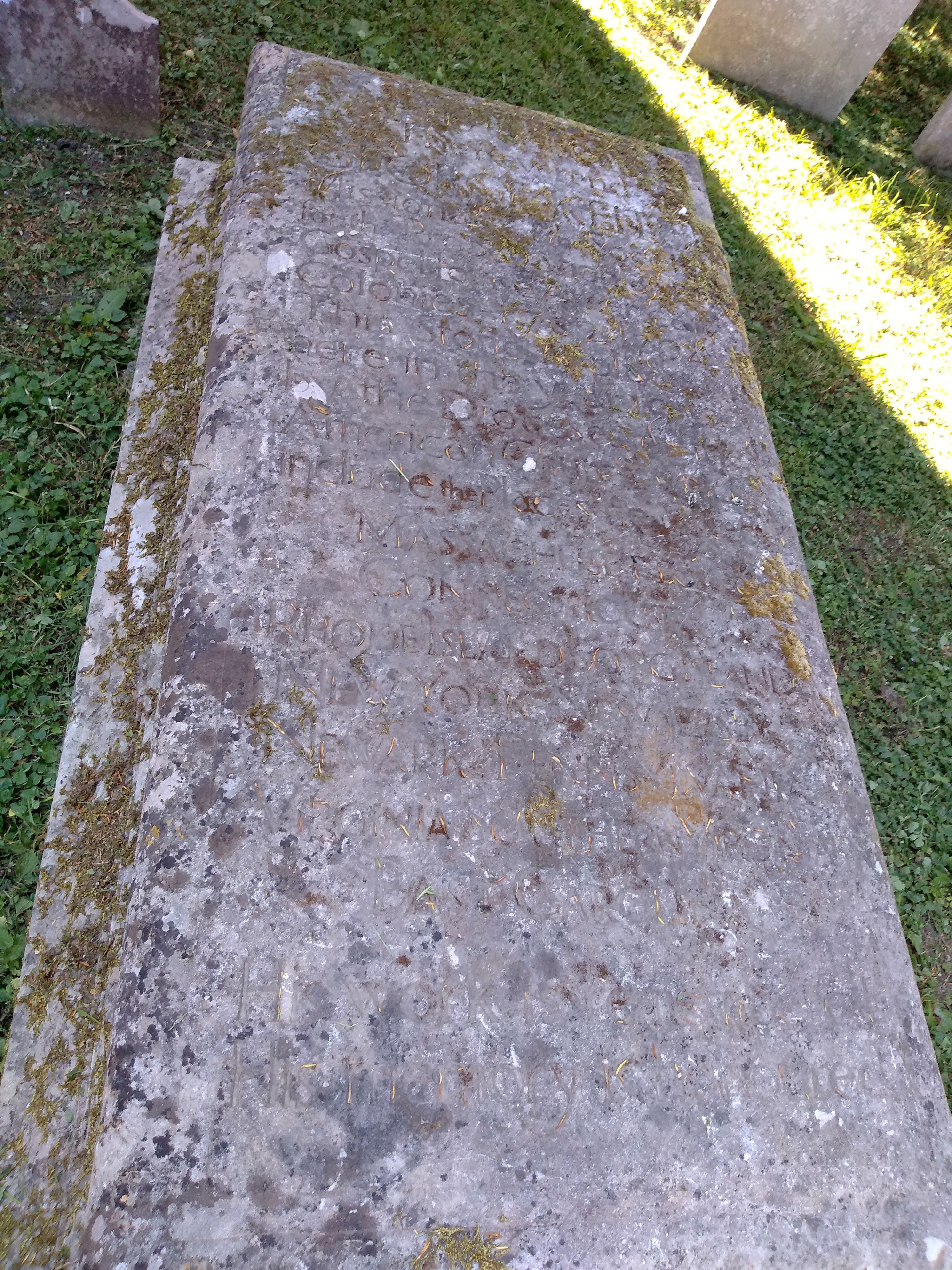 Edburton, St Andrews Church burial ground. Grave of George Keith (1638/9 – 27 March 1716). Inscription: Sacred to the memory of the reverend George Keith missionary of the society for the Propagation of the Gospel to the American Colonies 1702-1704. This stone is placed here in the year 1932 by the Dioceses of the American Church which include the places he visited. Massachusetts, Connecticut, Rhode Island, Long Island, New York, New Jersey, Newark, Pennsylvania, Virginia, Southern Virginia, East Carolina. His work is remembered, His memory is honoured. Base inscription: Born at Aberdeen 1638. Rector of Edburton from the year 1705 to 1716. Died at Edburton 1716.